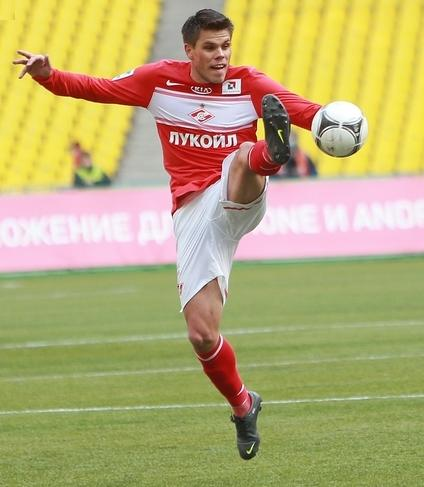 Ognjen Vukojević with FC Spartak Moscow in 2013.